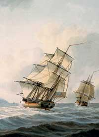 Resolution and Discovery off the Coast of Tahiti (cropped) from the original, 'Resolution' and 'Discovery' off the coast of Tahiti, by Samuel Atkins